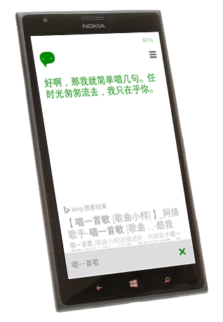 Xiao Na, the Chinese version of Cortana.